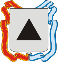 Magnitogorsk (Chelyabinsk oblast), coat of arms